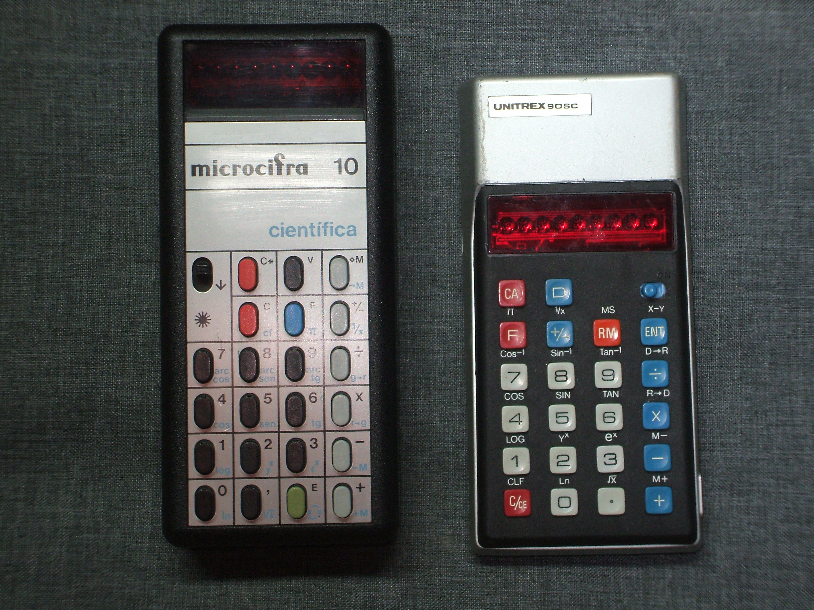 Microcifra 10 and UNITREX 90SC Scientific calculators